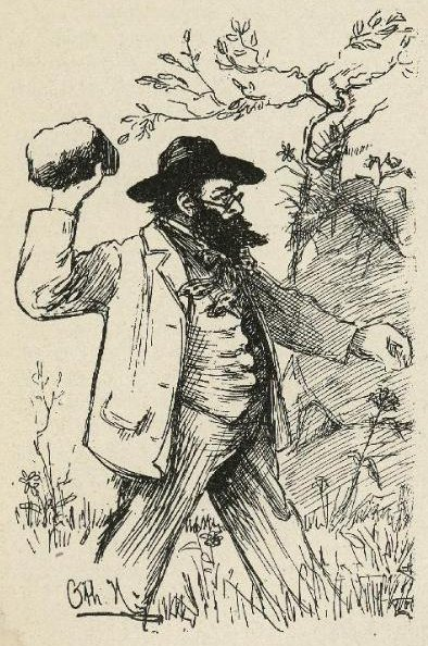 Drawing of the Norwegian geologist Amund Helland by Othar Holmboe. From Korsaren no. 15, November 4, 1895